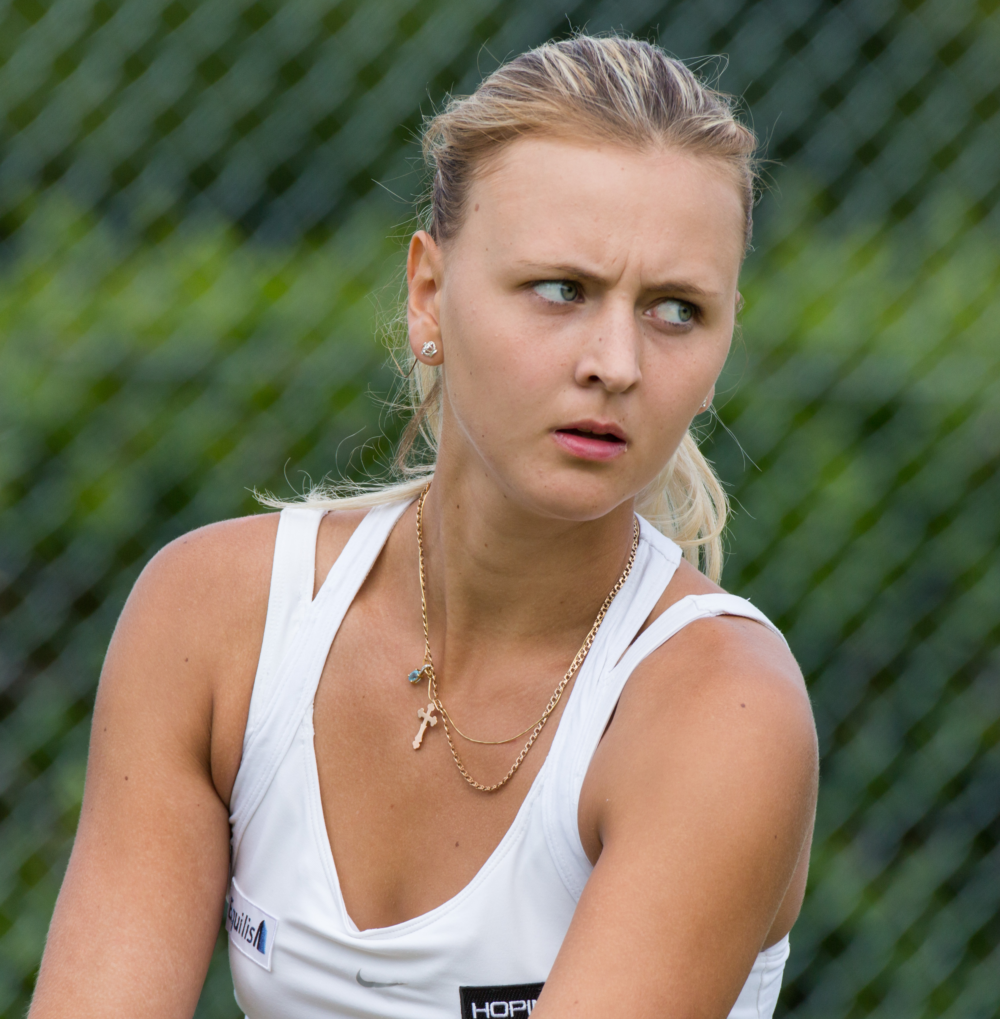 Maryna Zanevska competing in the first round of the 2015 Wimbledon Qualifying Tournament at the Bank of England Sports Grounds in Roehampton, England. The winners of three rounds of competition qualify for the main draw of Wimbledon the following week.